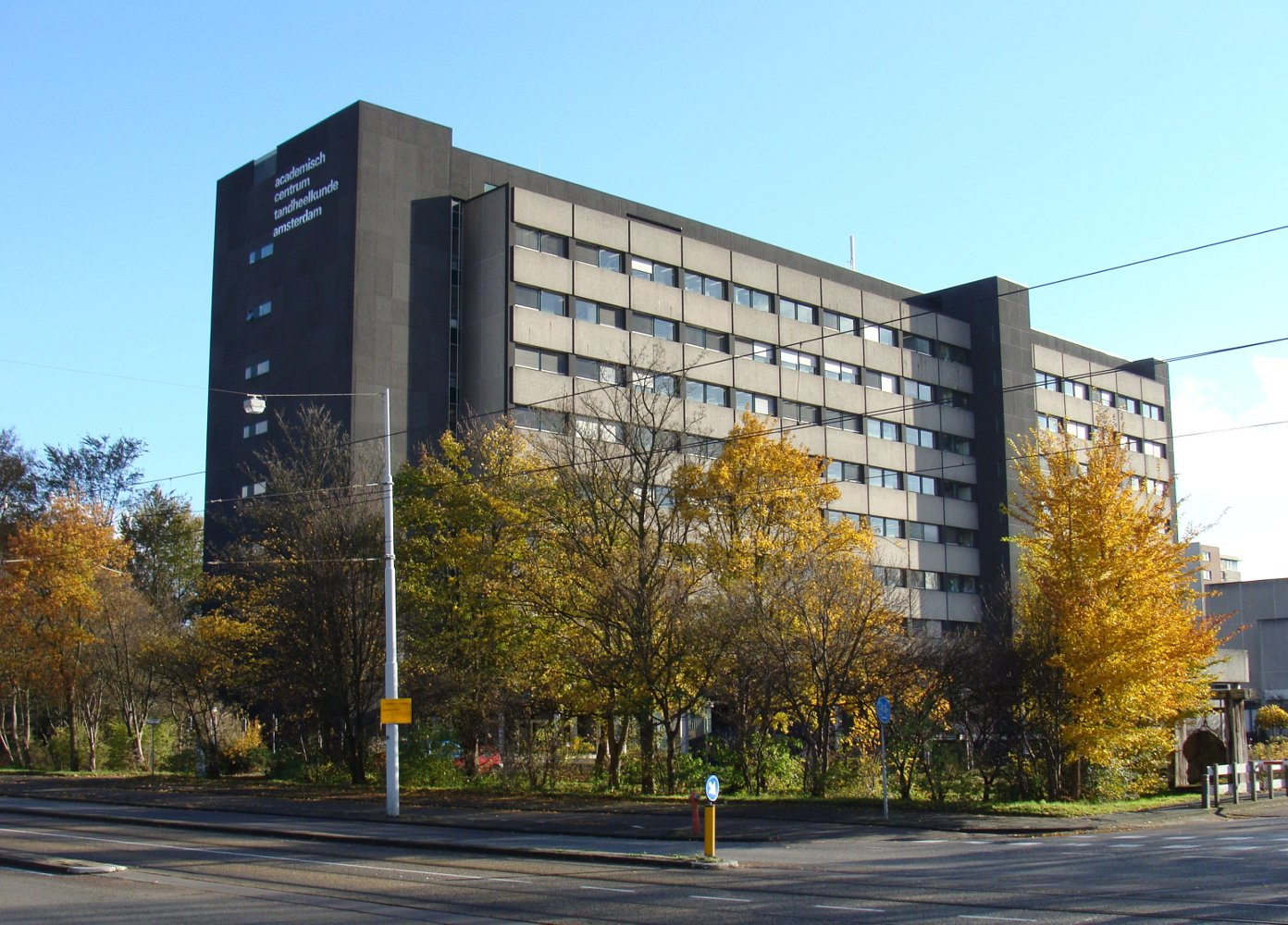 Building of the Academisch Centrum Tandheelkunde Amsterdam (Academic Centre for Dentistry Amsterdam), Louwesweg, Amsterdam (NL). Construction: 1966 - 1968